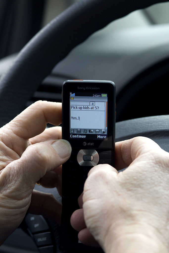 A new law effective Jan. 1 bans using mobile communications devices while driving unless you are using a hands-free device. The law is intended to improve safety on Oregon roads by discouraging distracted driving.